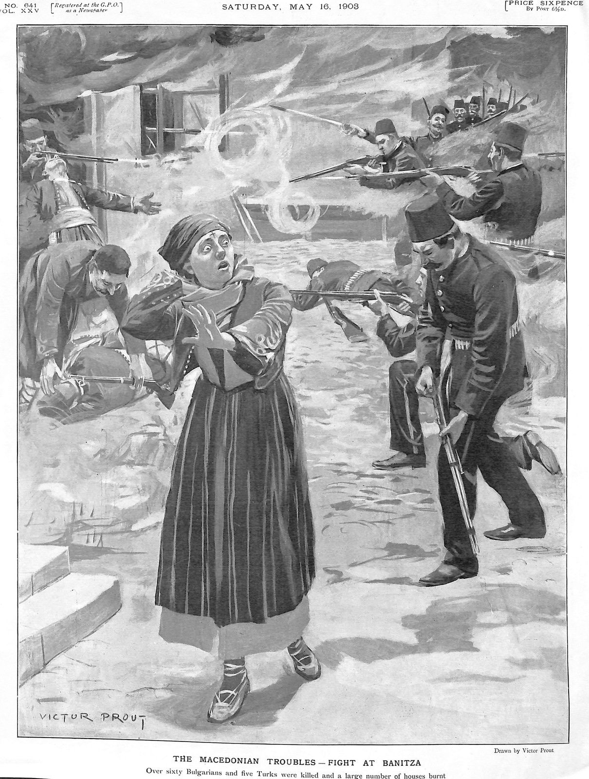 Battle at Banitsa, The Illustrated London News Magazine, 16 May 1903